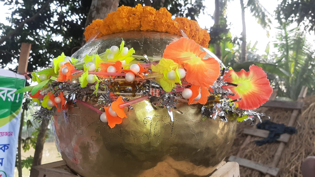 Guti of Humguti, which is played for 250 years in Fulbaria,Mymensingh